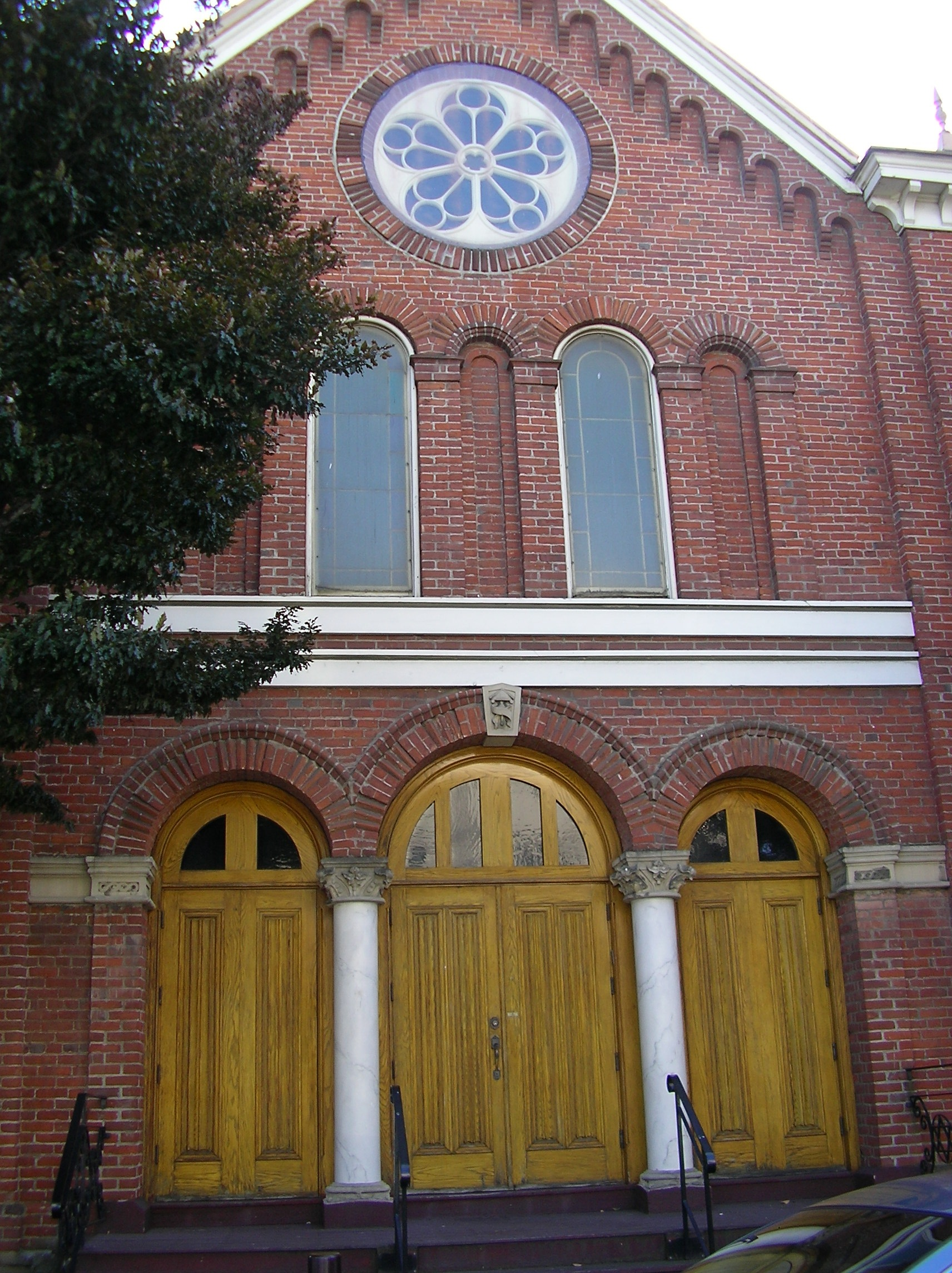 Congregation Emanu-el Synagogue, Victoria, British Columbia, Canada. Built in 1863, this shul is the oldest continuously used house of worship (by any faith) in Canada, and the oldest synagogue in continuous use on the west coast of North America.